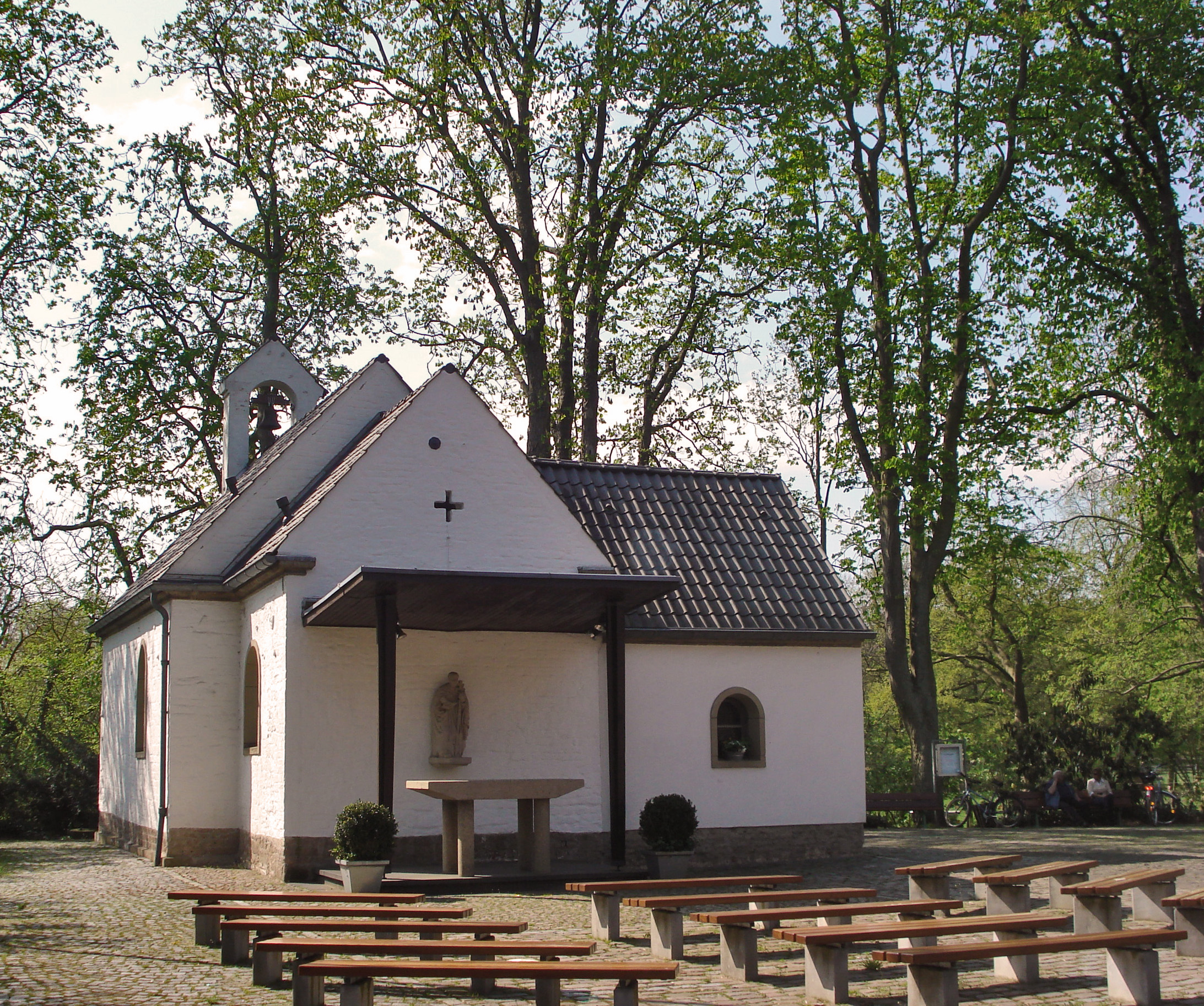 Cornelius-Kapelle